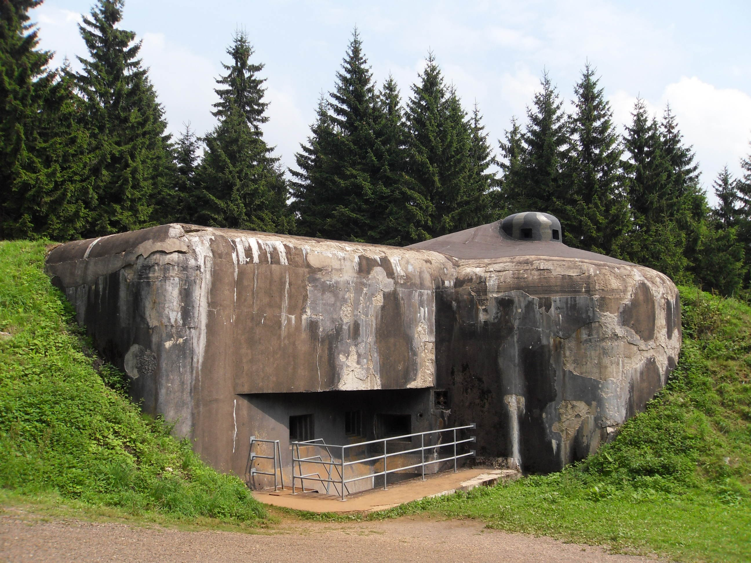 R-S 76 U lomu infantry casemate, Hanička fortress, Rychnov nad Kněžnou District, Czech Republic